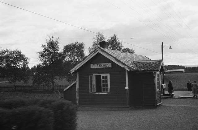 Fleskhus Station, Norway